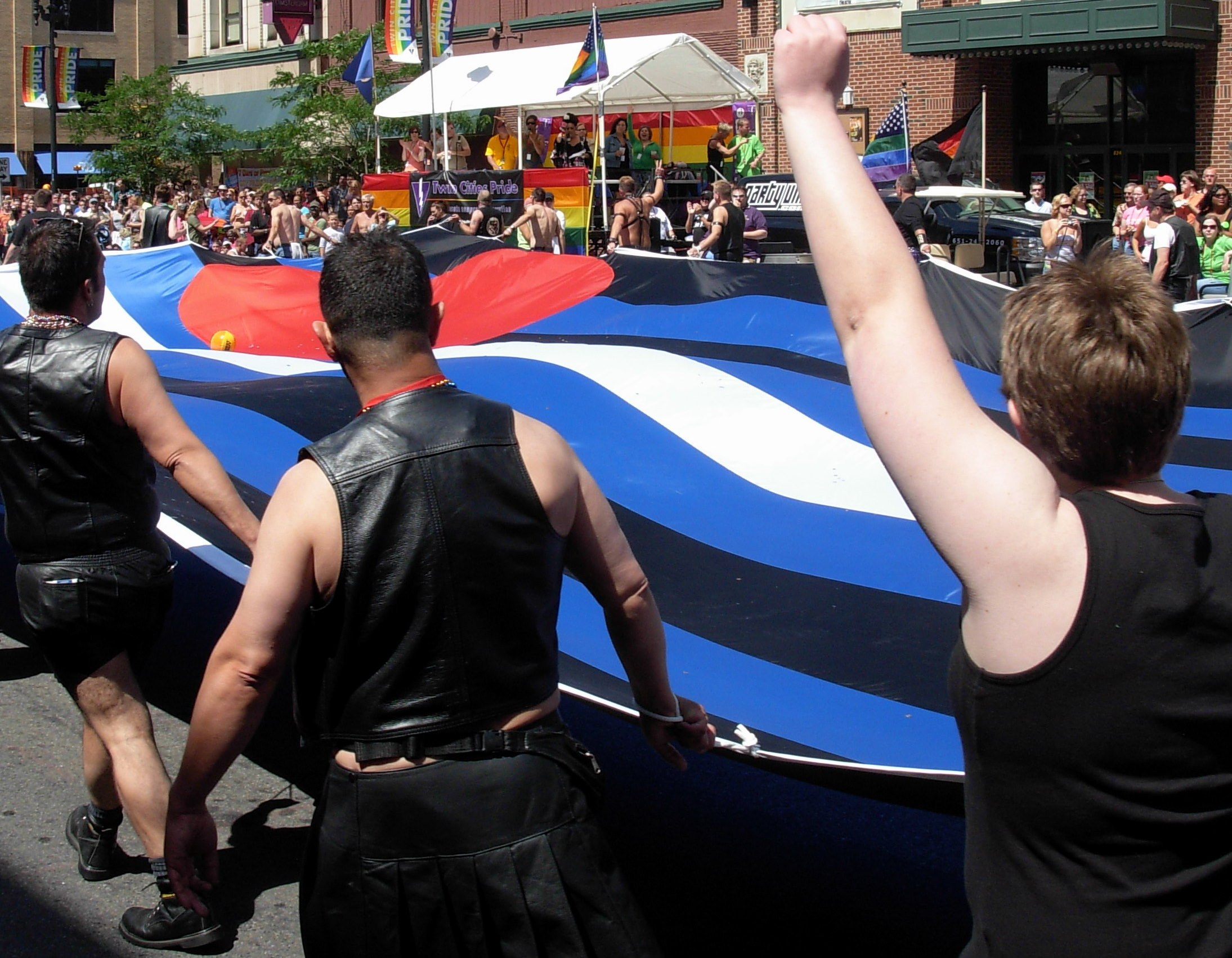 Twin Cities Pride Parade marchers with a large leather pride flag in Minneapolis, Minnesota. The Twin Cities are home to the largest leather pride flag in the United States.